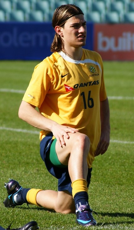 James Troisi at Socceroos training